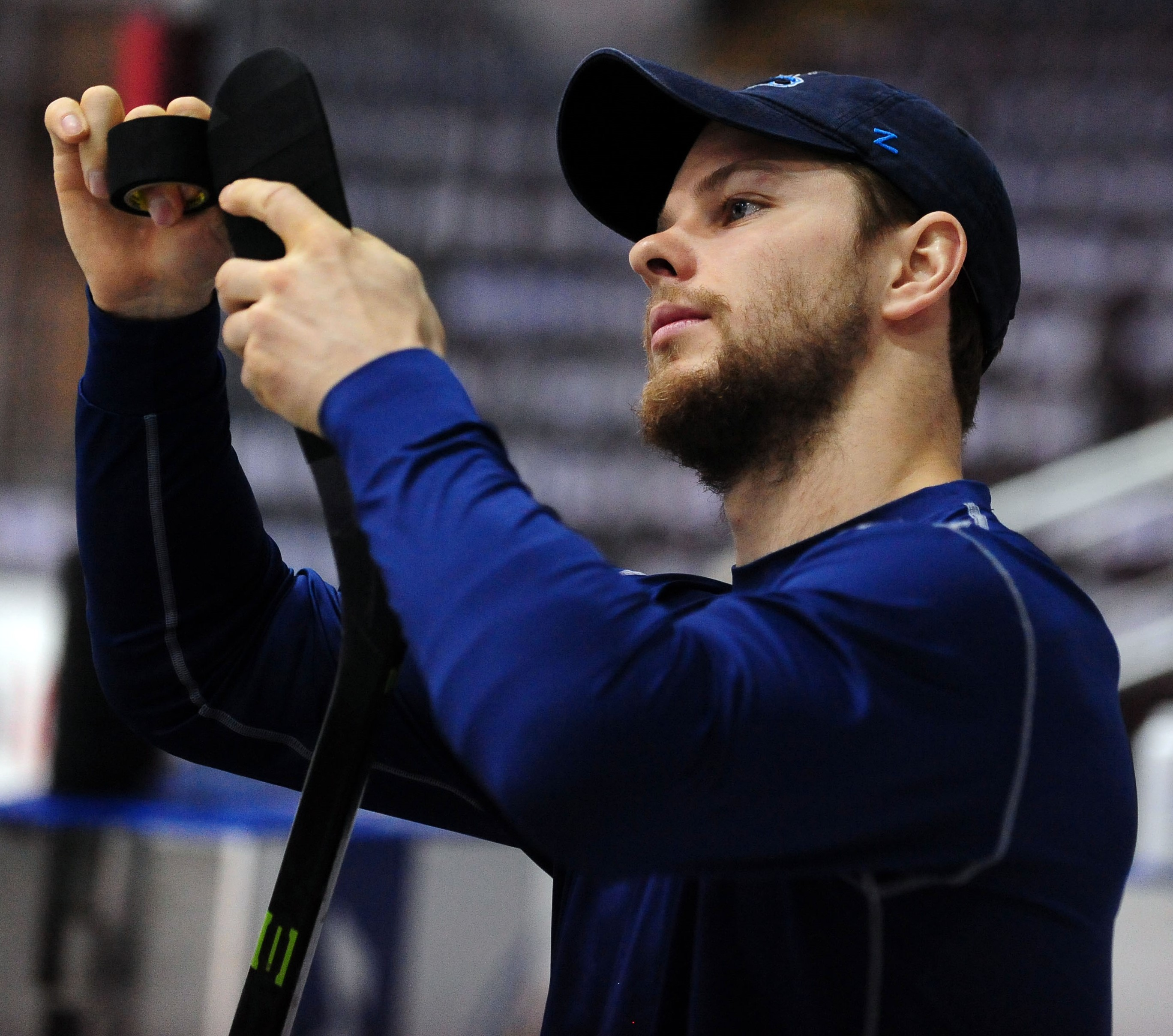 Ice hockey player Andrew Gordon of the St. John's IceCaps.